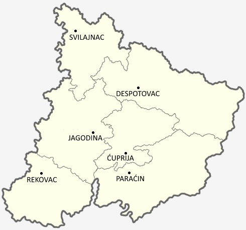 A labeled map of the Pomoravlje District in Serbia, created by me.